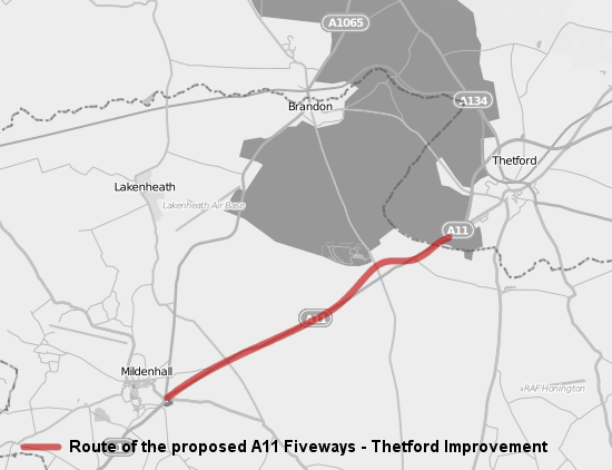 The location, in red, of the proposed A11 Fiveways - Thetford Improvement. Overlaid on OpenStreetMap data.